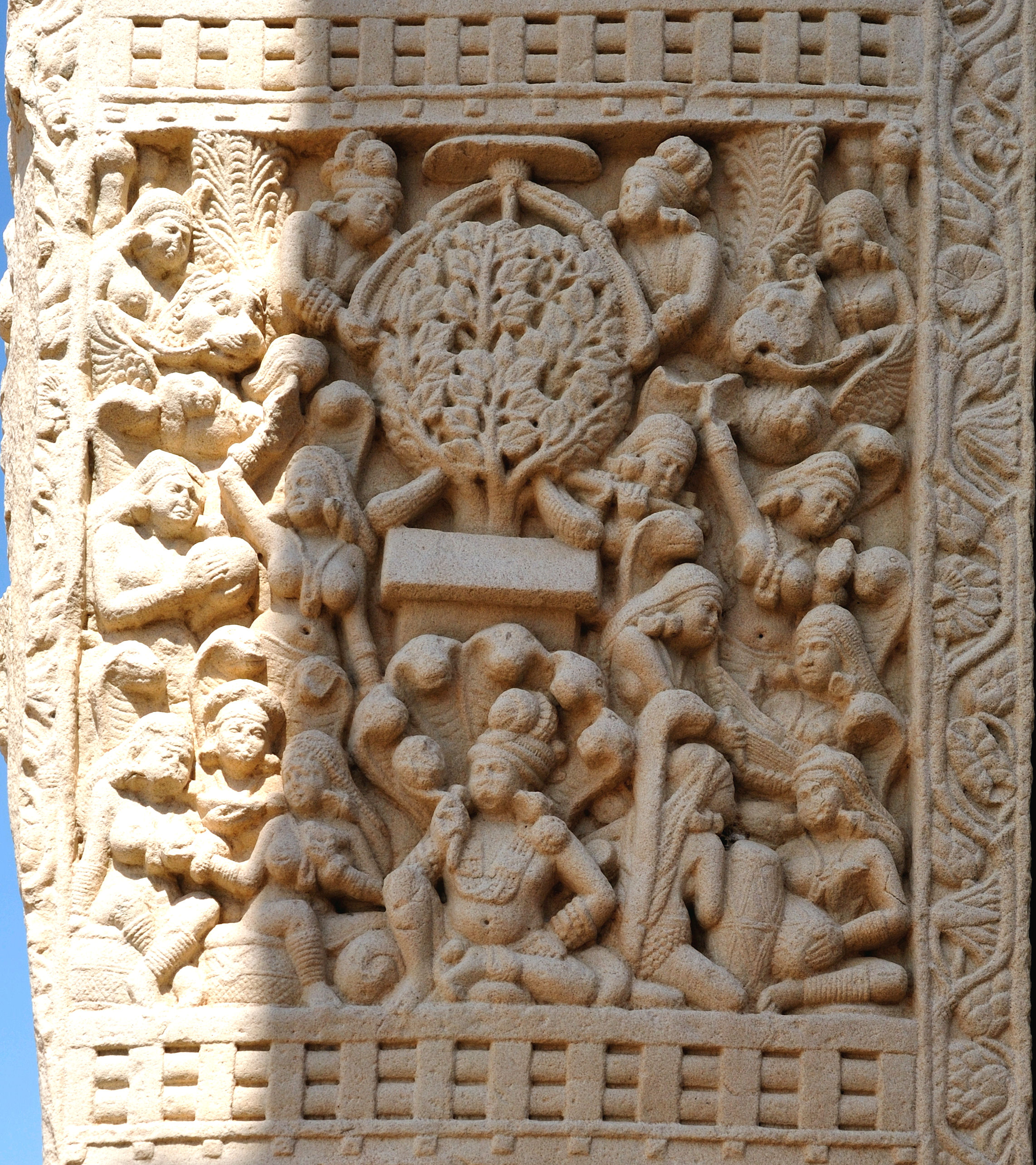 Enlightenment of the Buddha with the Nagas rejoincing. Marshall p.73